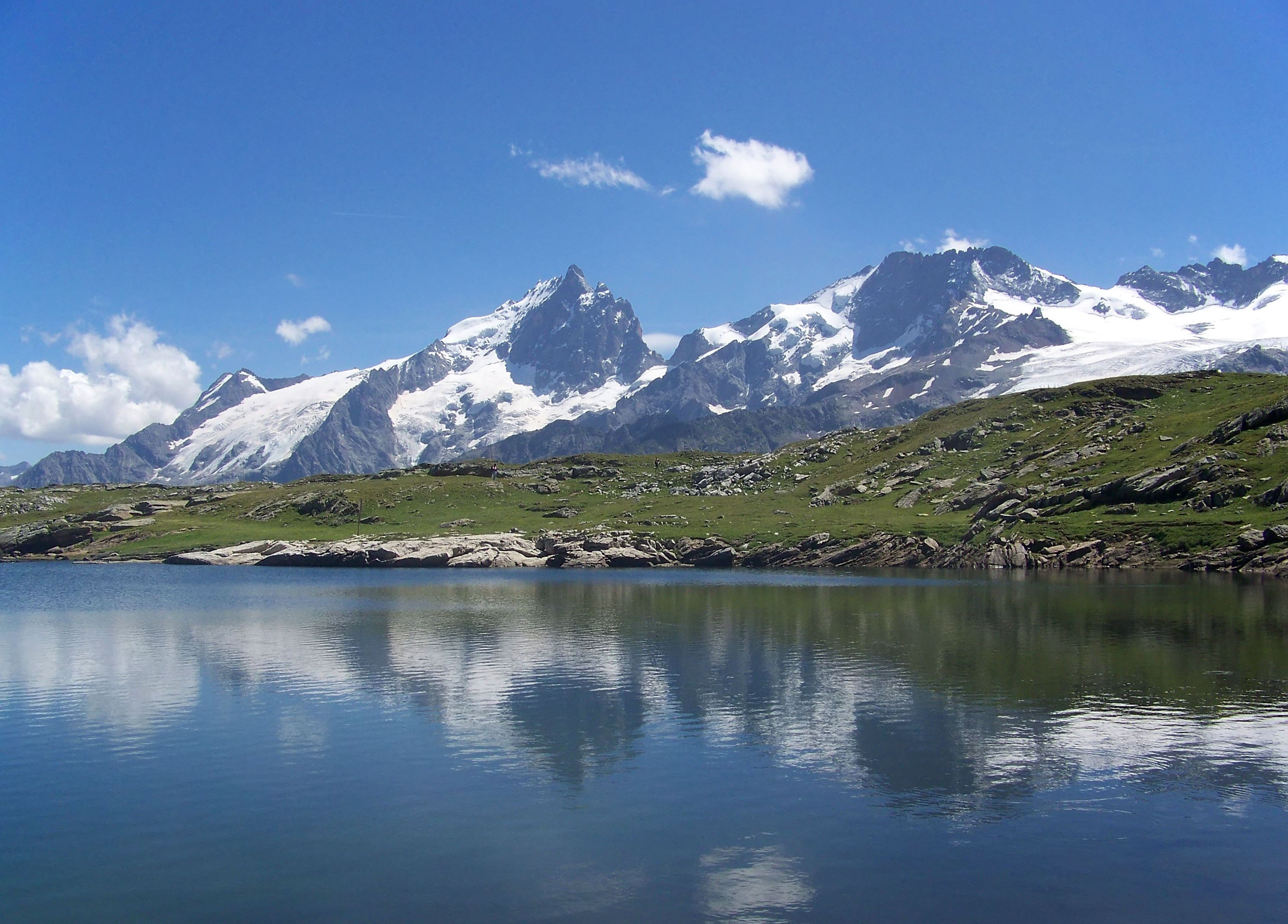 La Meije massif from Lac Noir, on the Emparis plateau (French Alps). In the background, from the left: Tabuchet Glacier, Grand Pic de la Meije (main summit on the picture) and Meije glacier, Râteau glacier, le Râteau (wider summit), Girose glacier.